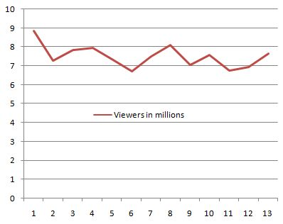 A graph created on Microsoft Excel to show the viewers for the sixth series of Doctor Who.